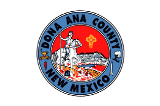 Flag of Template:Doña Ana County, New Mexico, USA